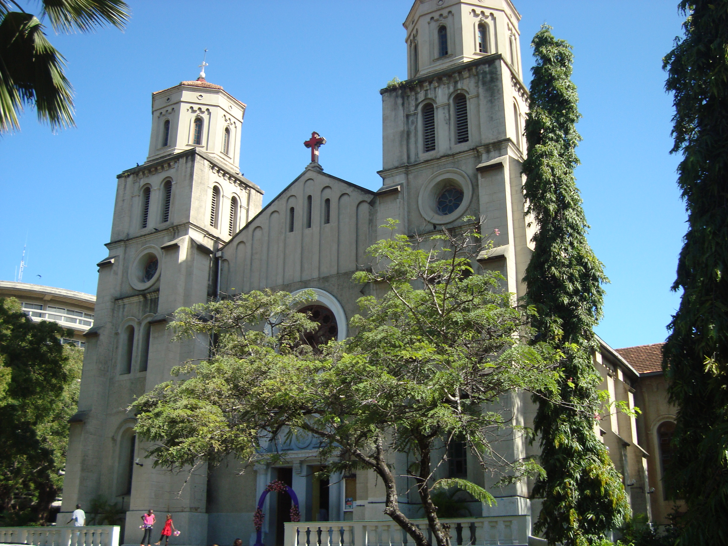 The year 1889 marks the beginning of Mombasa’s first “catholic mission”. Fr. Alexandre Le Roy, a French Holy Ghost Missionary (C.S.Sp), is considered the pioneer of this initiative. The first baptism took place on August 14, 1889, when Maria, the infant daughter of Diego and Natalie Pereira, was received into the Christian community.